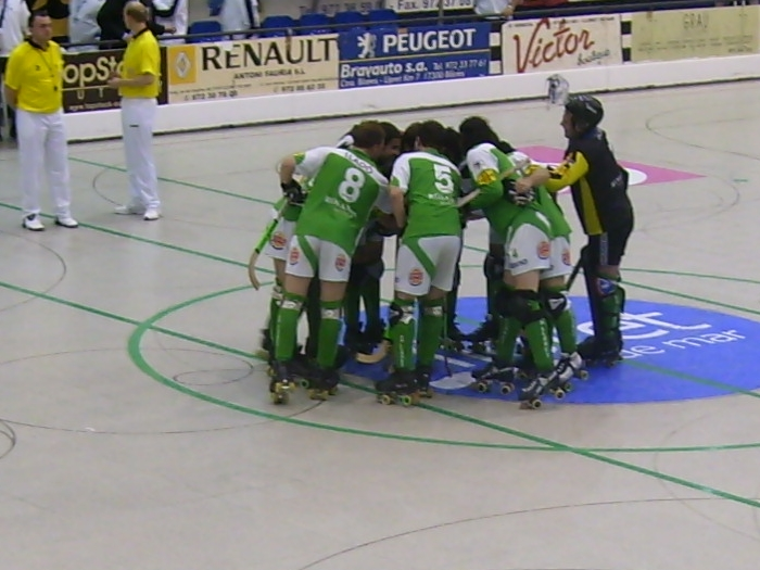 2008-09 CERS Cup Final Four (Lloret de Mar, Catalonia) - Semifinal CH Lloret - CGC Viareggio